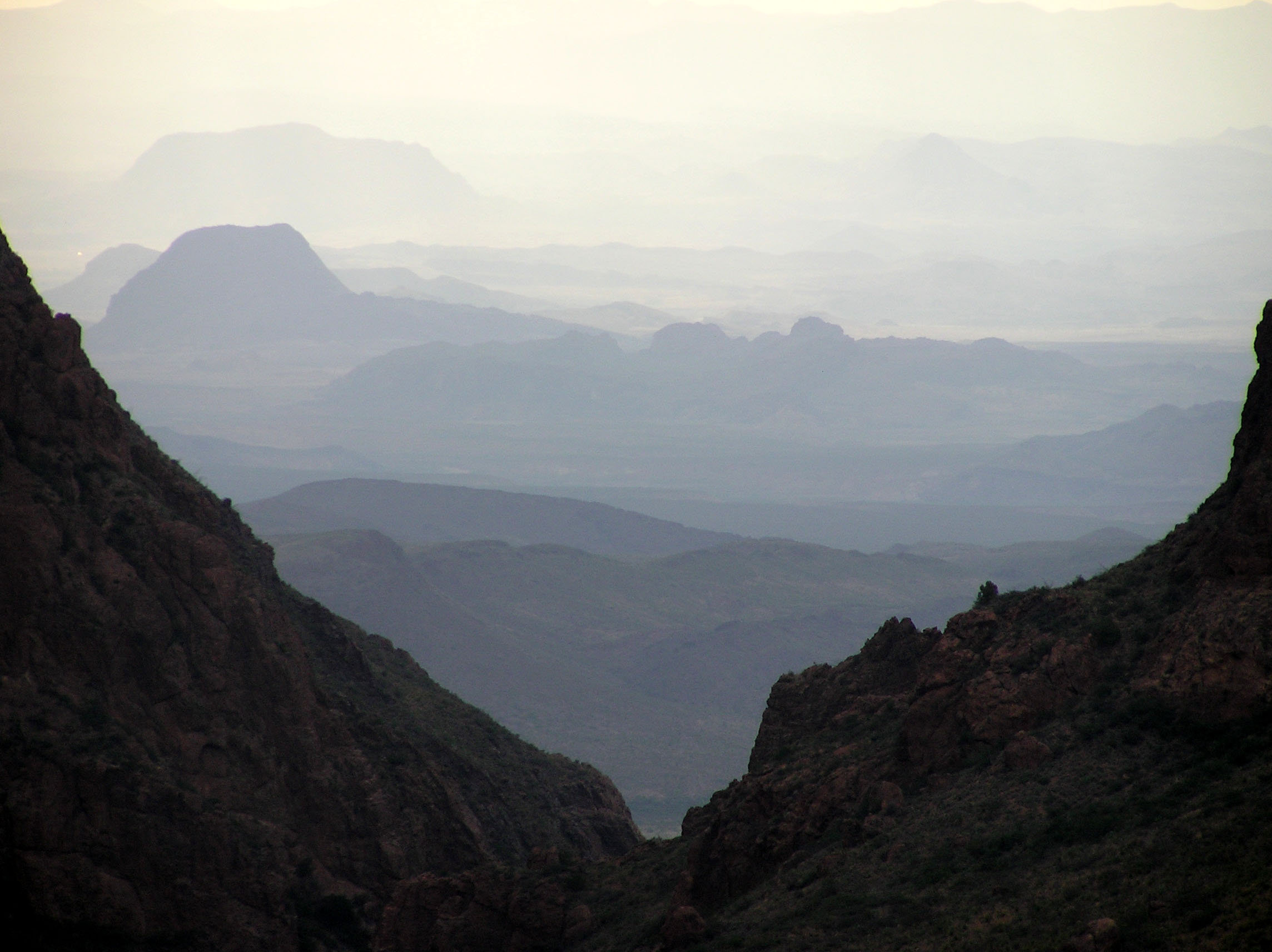 Location Big Bend National Park Description Sometimes considered "three parks in one," Big Bend includes mountain, desert, and river environments. An hour’s drive can take you from the banks of the Rio Grande to a mountain basin nearly a mile high. Here, you can explore one of the last remaining wild corners of the United States, and experience unmatched sights, sounds, and solitude.